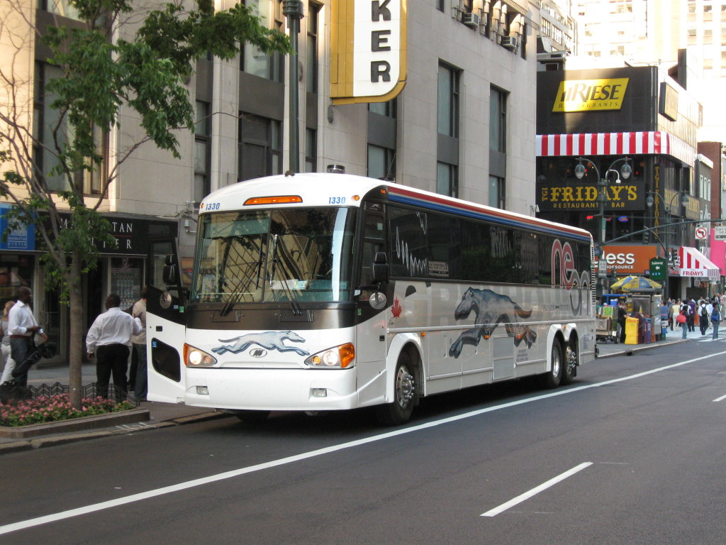 Greyhound Canada MCI D4505 #1330 (wearing NeOn branding) has reached the end of its run from Toronto at The New Yorker Hotel in New York, NY, USA.